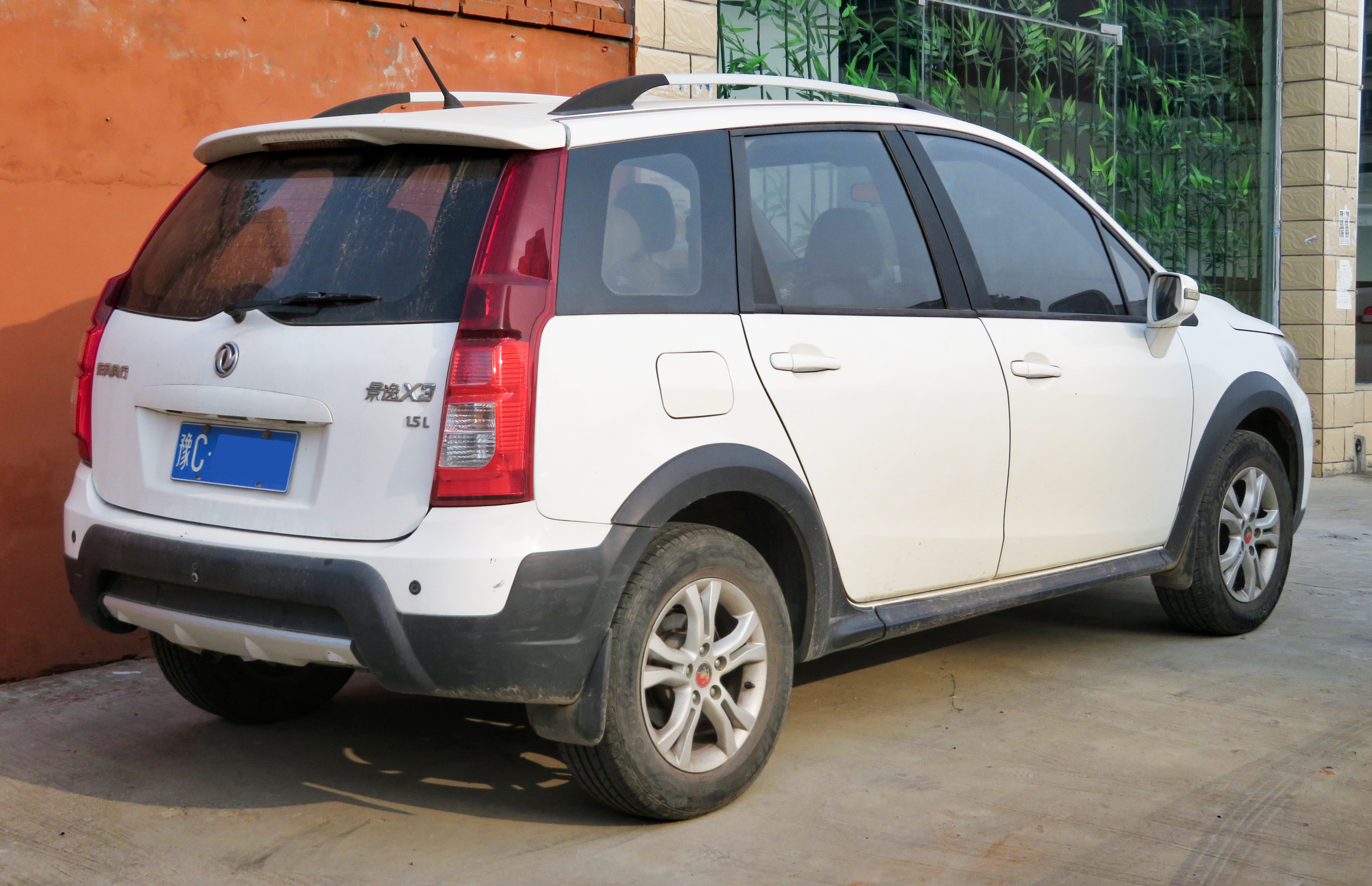 2017 Dongfeng-Fengxing Jingyi X3 photographed in Xigong District, Luoyang, Henan province, China